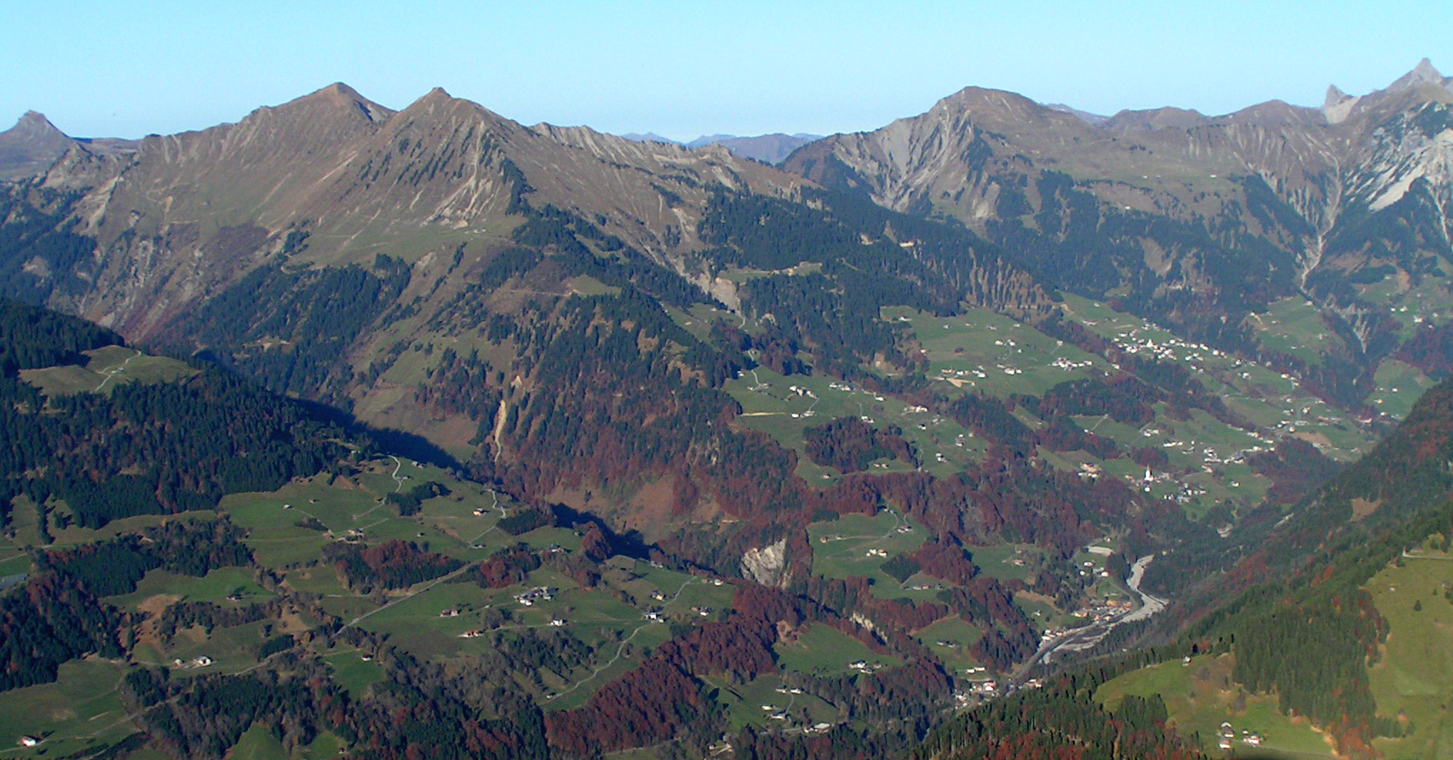 The Valley Großes Walsertal in Vorarlberg/Austria with the villages "Sonntag" and "Fontaenella"; seen from the moutain "Hoher Fraßen"